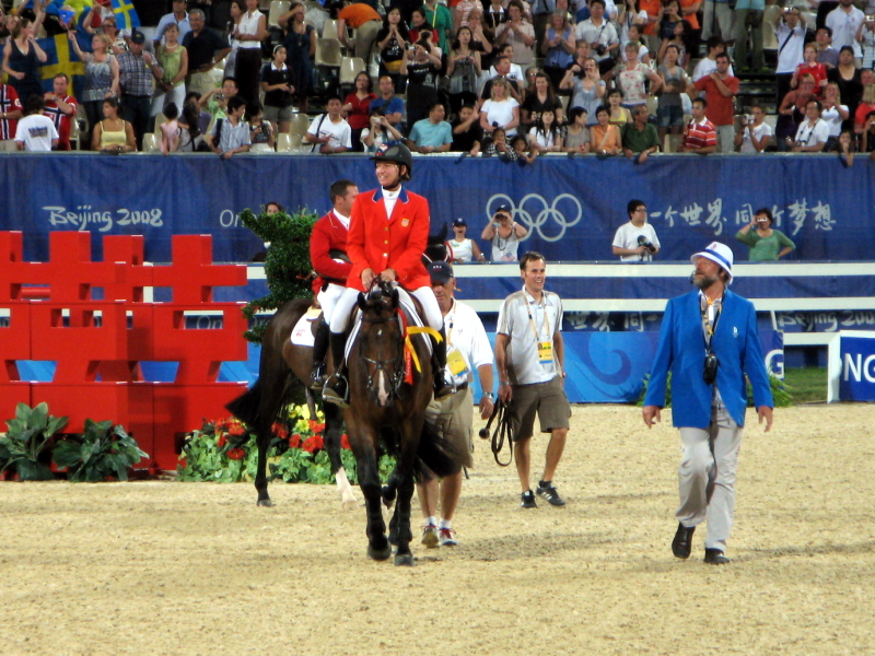 Beezie Madden with Authentic, 2008 Olympic Games equestrian in Sha Tin, Hongkong